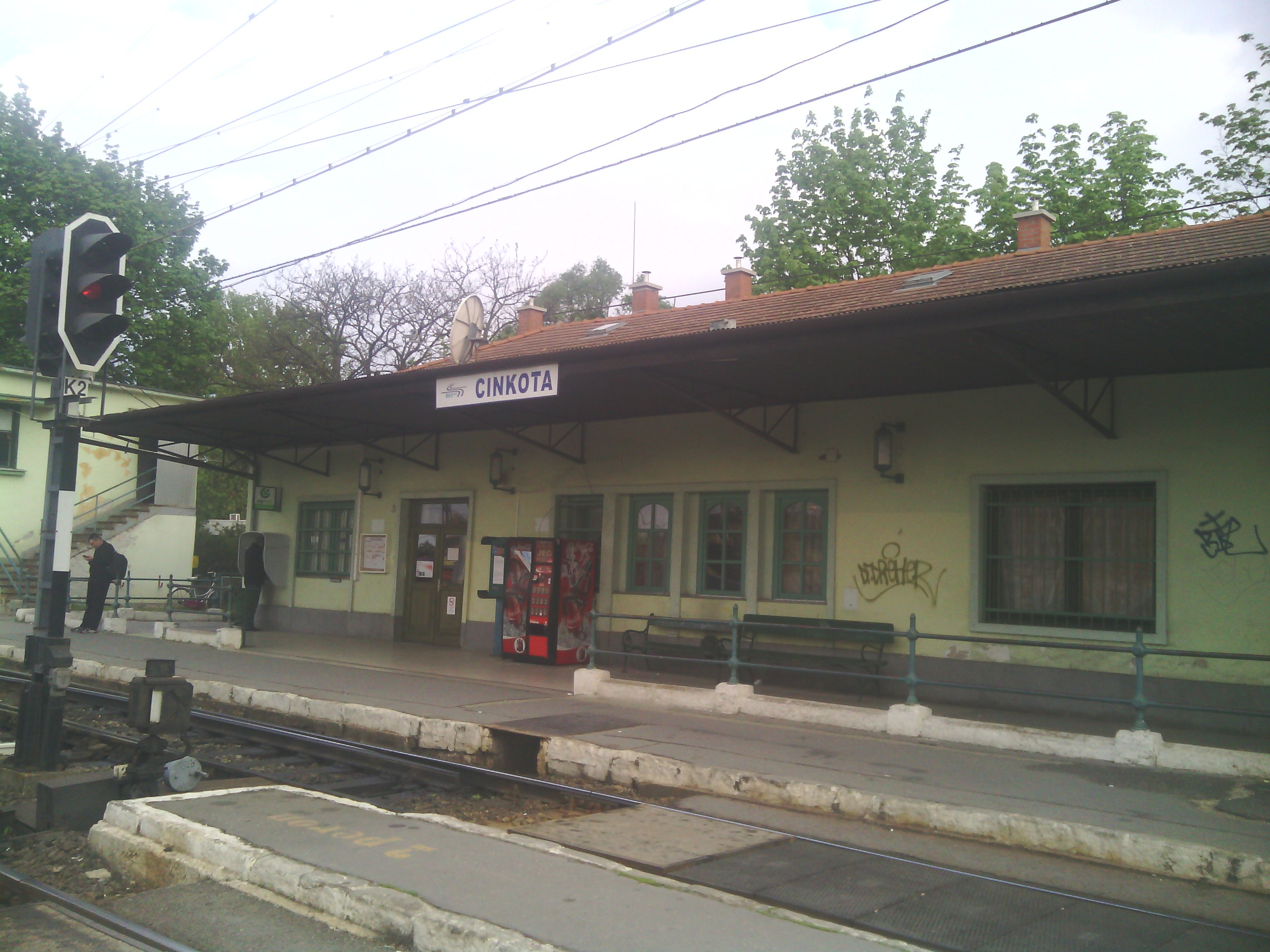 Cinkota HÉV station